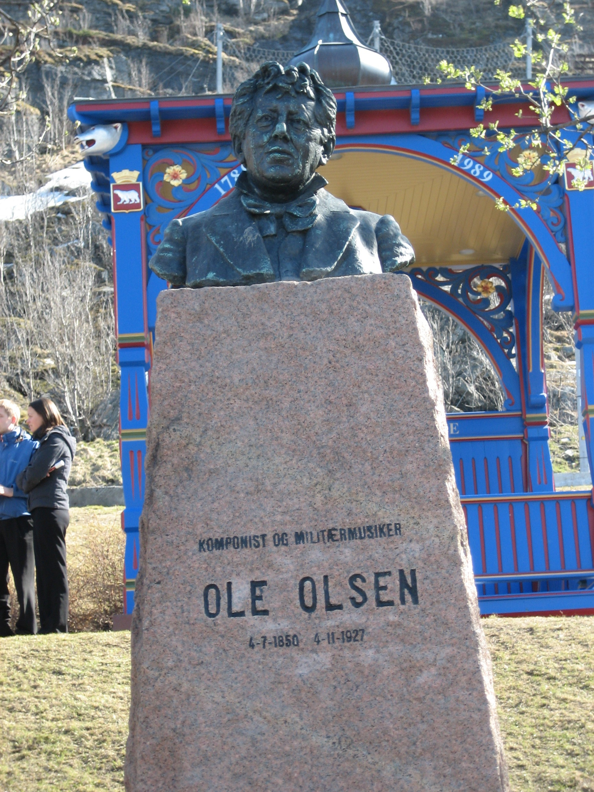 Close up of Ole Olsen monument in Hammerfest, by me on 17 May 2007 Manxruler 21:53, 8 June 2007 (UTC)